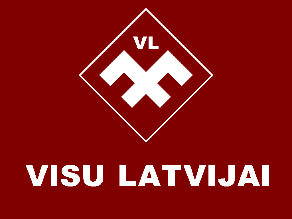 The official logo of "Visu Latvijai!" ("All for Latvia!")